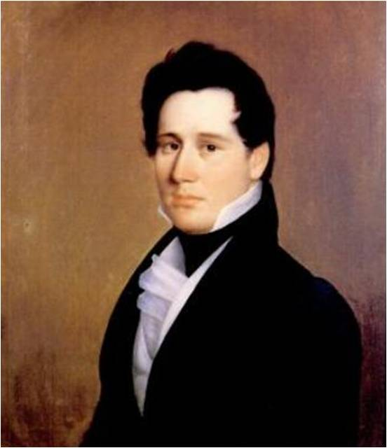 Wharton Rector, 1800-1842, Served as the Adjutant General of the Arkansas Territorial Militia, under Governor George Izard. He also served as a Regular Army Paymaster a Van Buren Arkansas